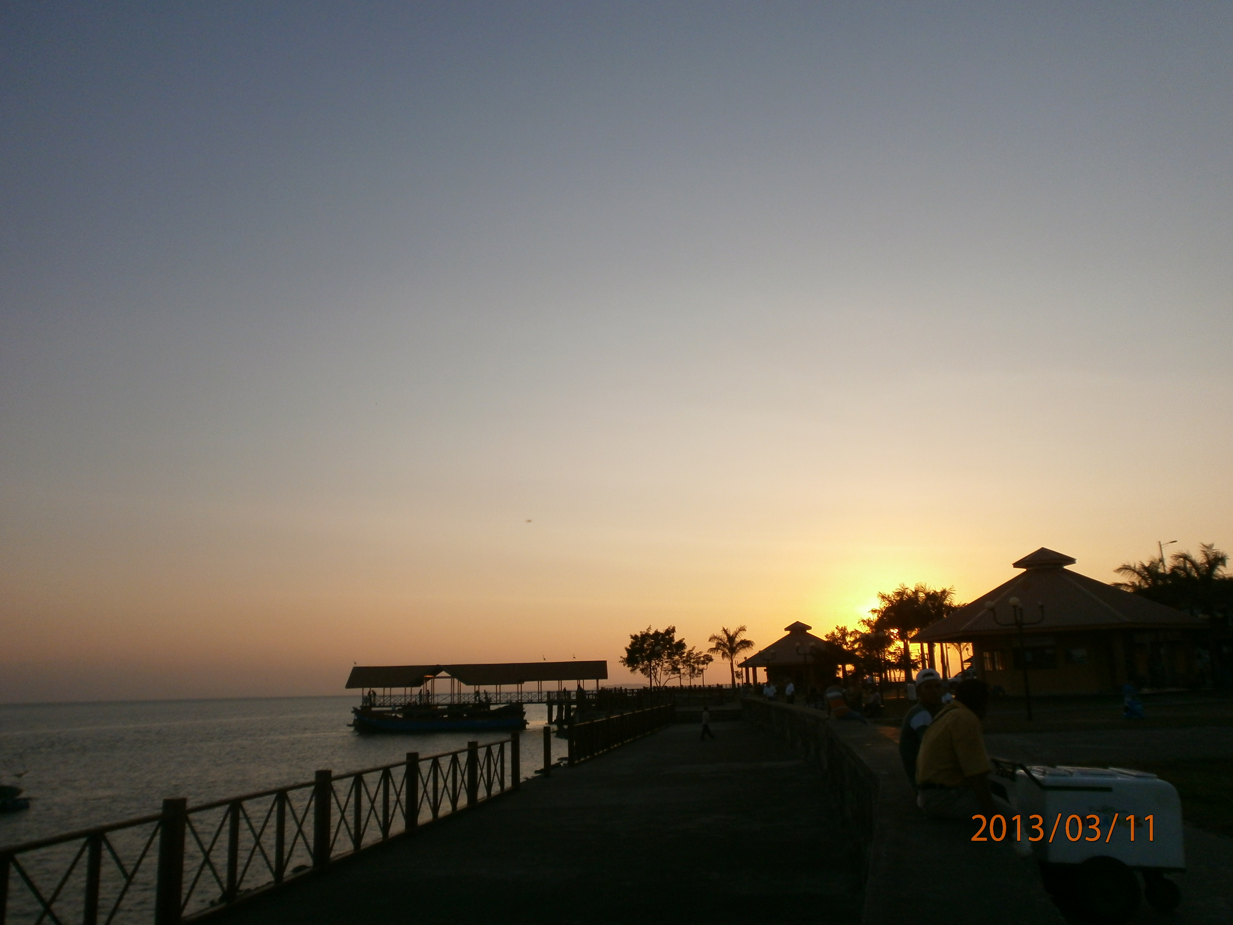 View from the malecon of San Carlos, Rio San Juan, Nicaragua during sundown